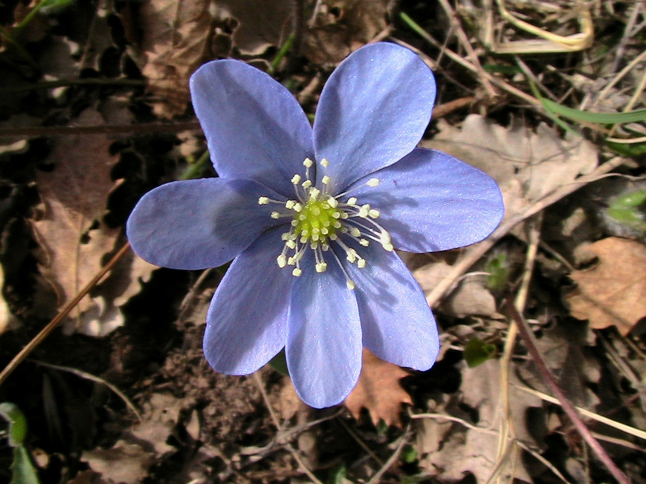 Anemone hepatica. In Torà (Segarra, Catalunya). On 600 m. altitude